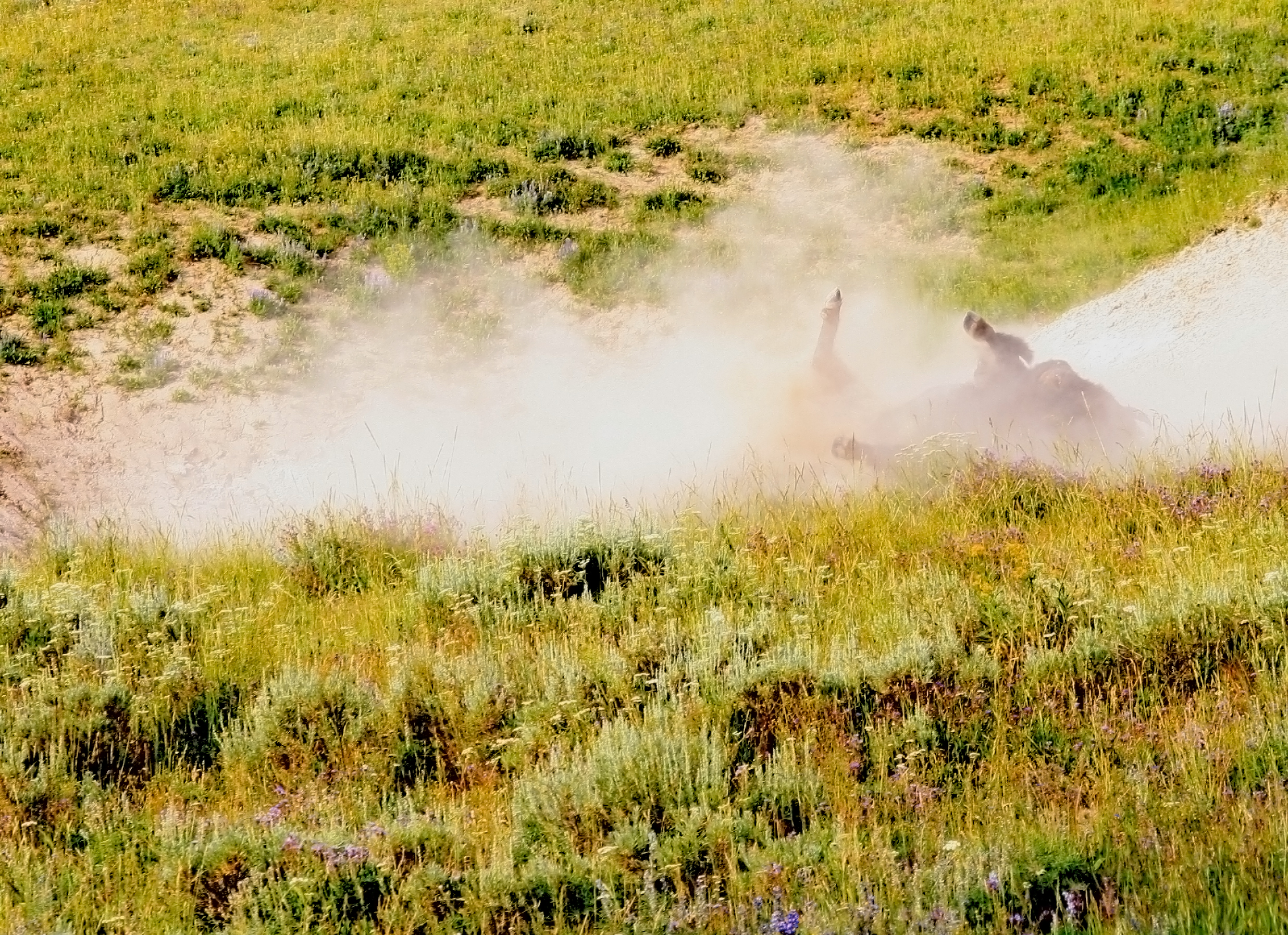 An American bison, Bison bison wallows is a shallow depression in the soil in Yellowstone National Park